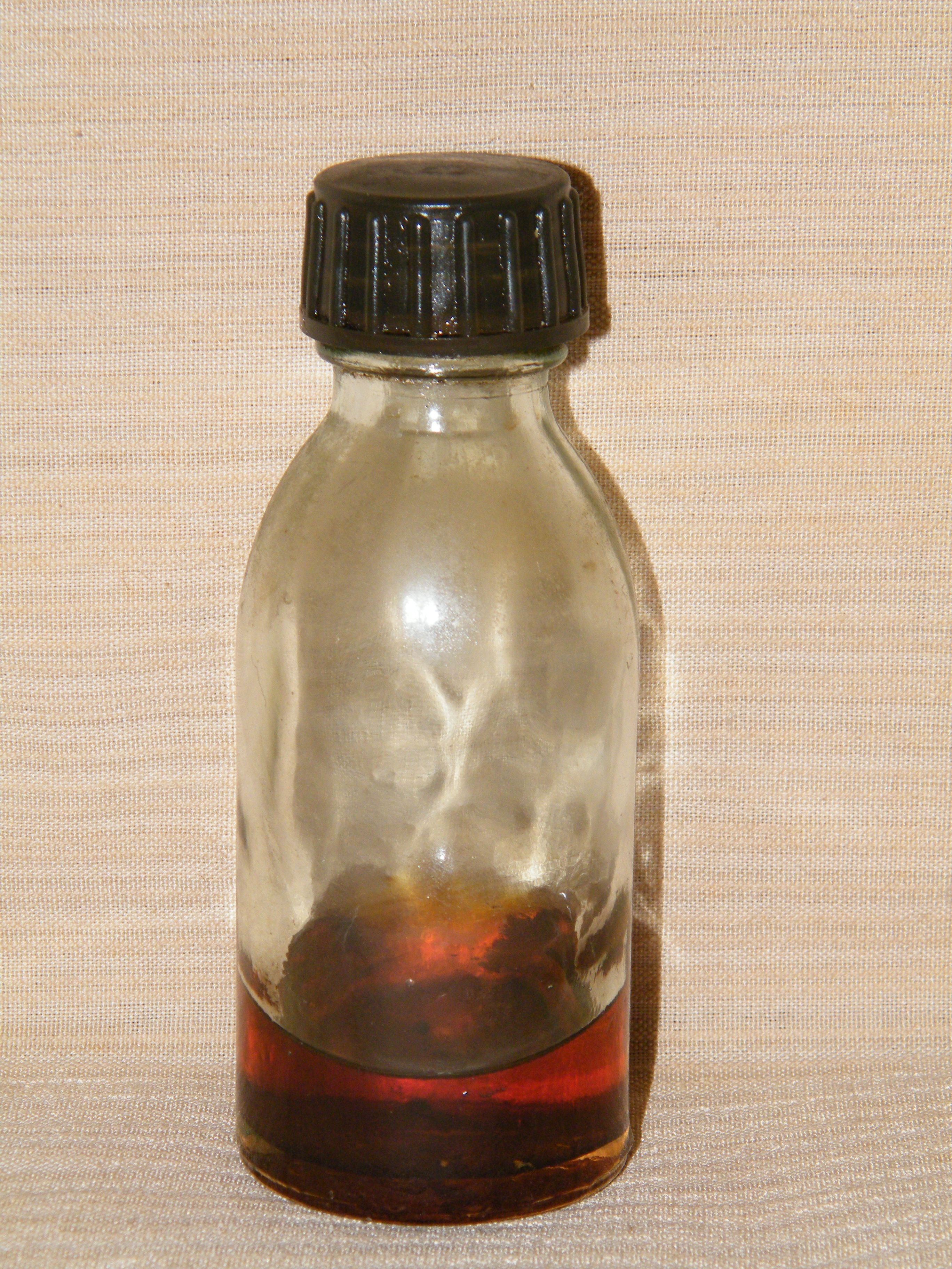 Sewing machine oil